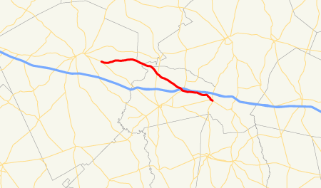 Map of Georgia State Route 86